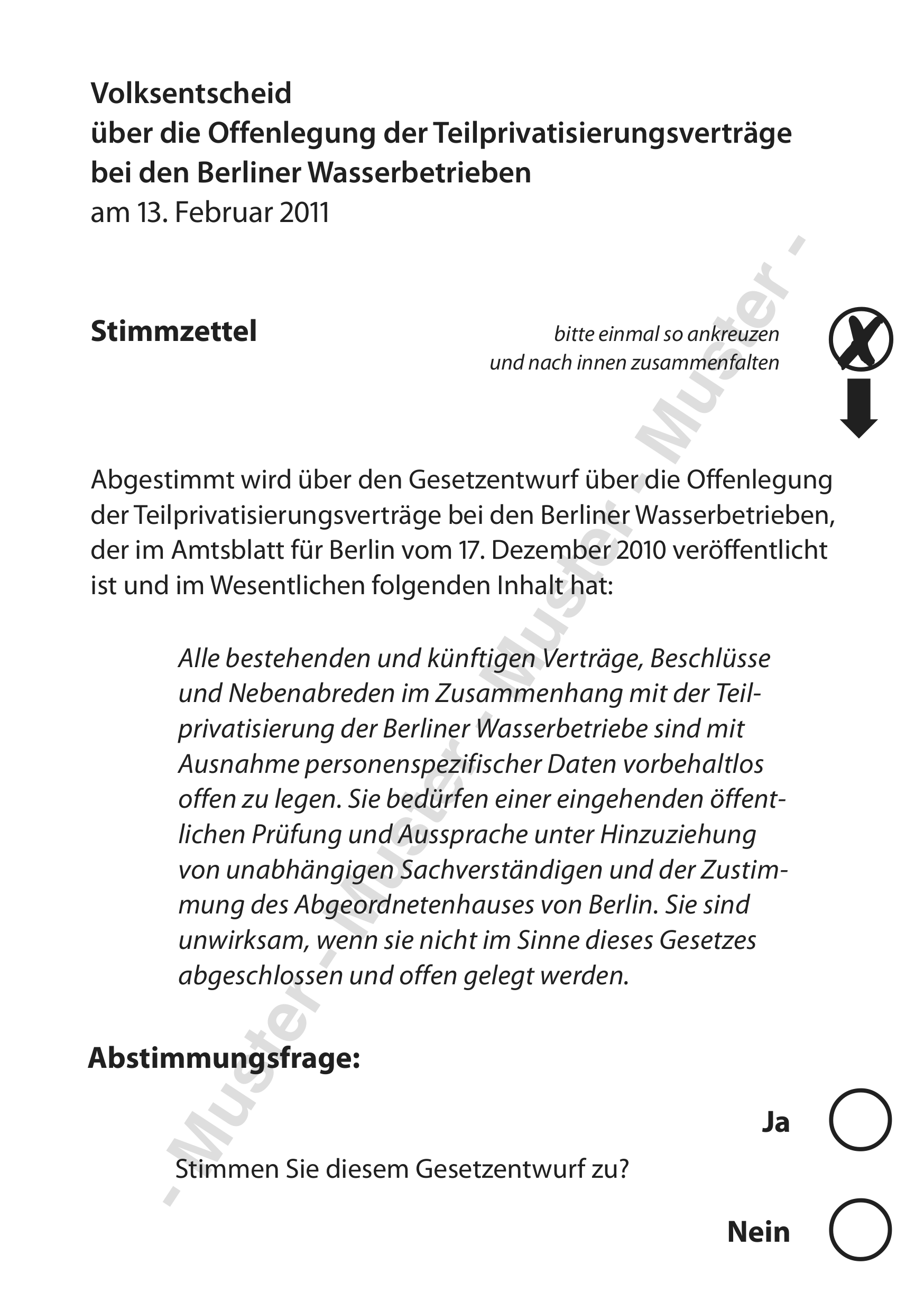 Specimen of the ballot for the Berlin plebiscite on the publication of the contracts on the public-private partnership regarding "Berliner Wasserbetriebe" (municipal water provider of Berlin).